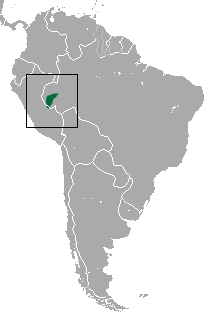 White-mantled Tamarin (Saguinus melanoleucus) range